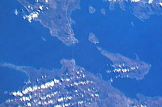 Mackinac Bridge